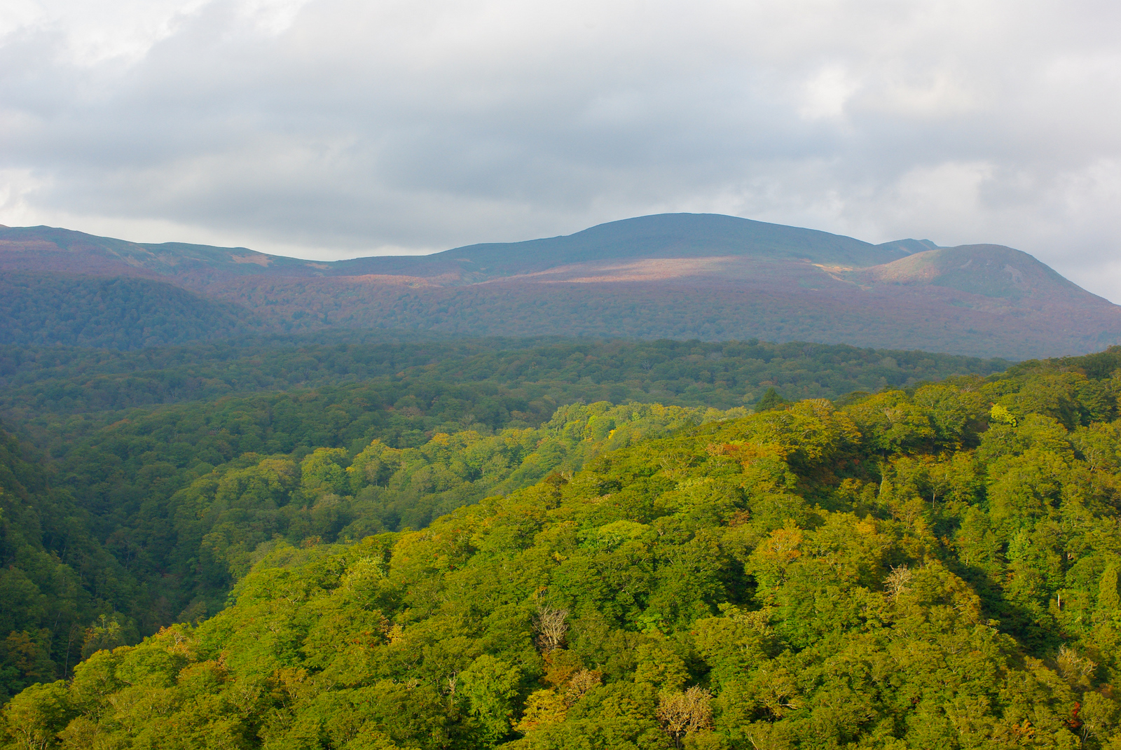 The SSW side of Mt. Kurikoma.